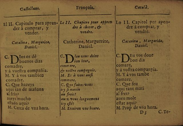 Fotografia pròpia del llibte Dictionario castellano... Dictionaire françois... Dictionari catala. Barcelona 1642. Author: Pere Lacavalleria (1642)